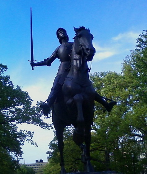 Joan of Arc statue in Meridian Hill Park, post-renovation